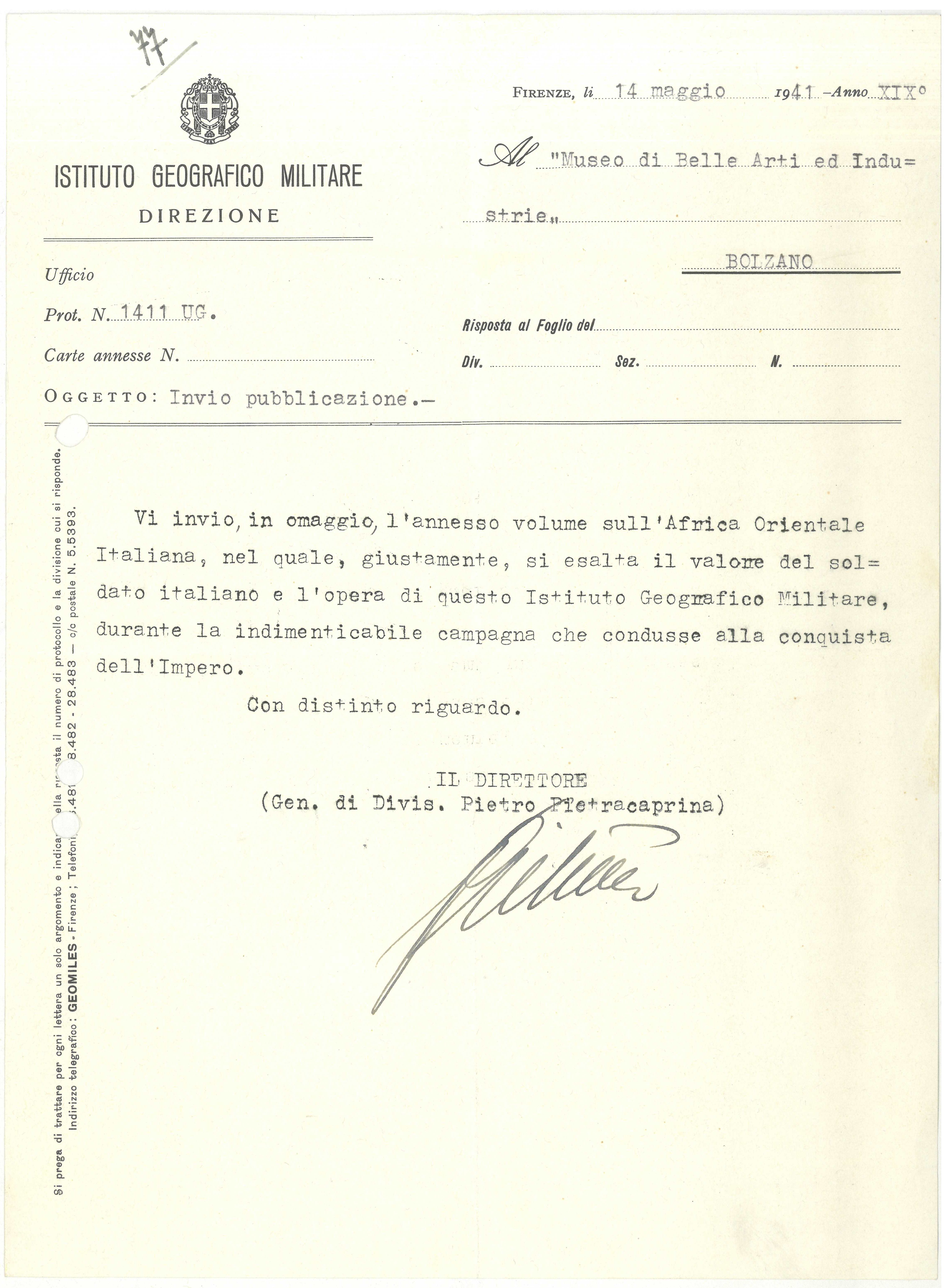 Letter of the IGM concerning a publication about the values of the italian soldiers creating the new Impero